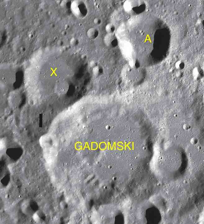 Part of the chart LAC-34 used for the presentation